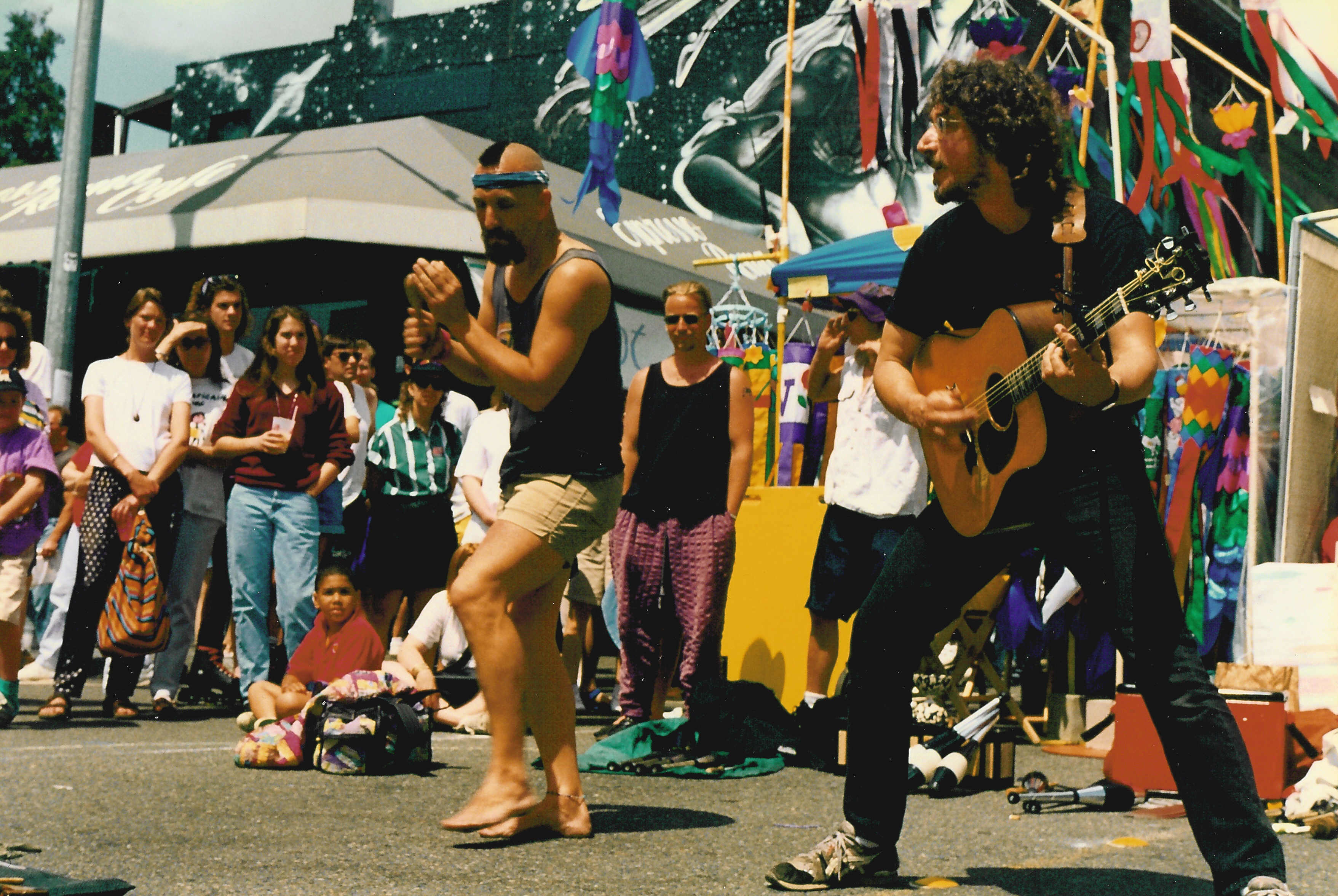 Artis the Spoonman (left) and Jim Page (right) perform at 1993 University District Street Fair, University District, Seattle, Washington.